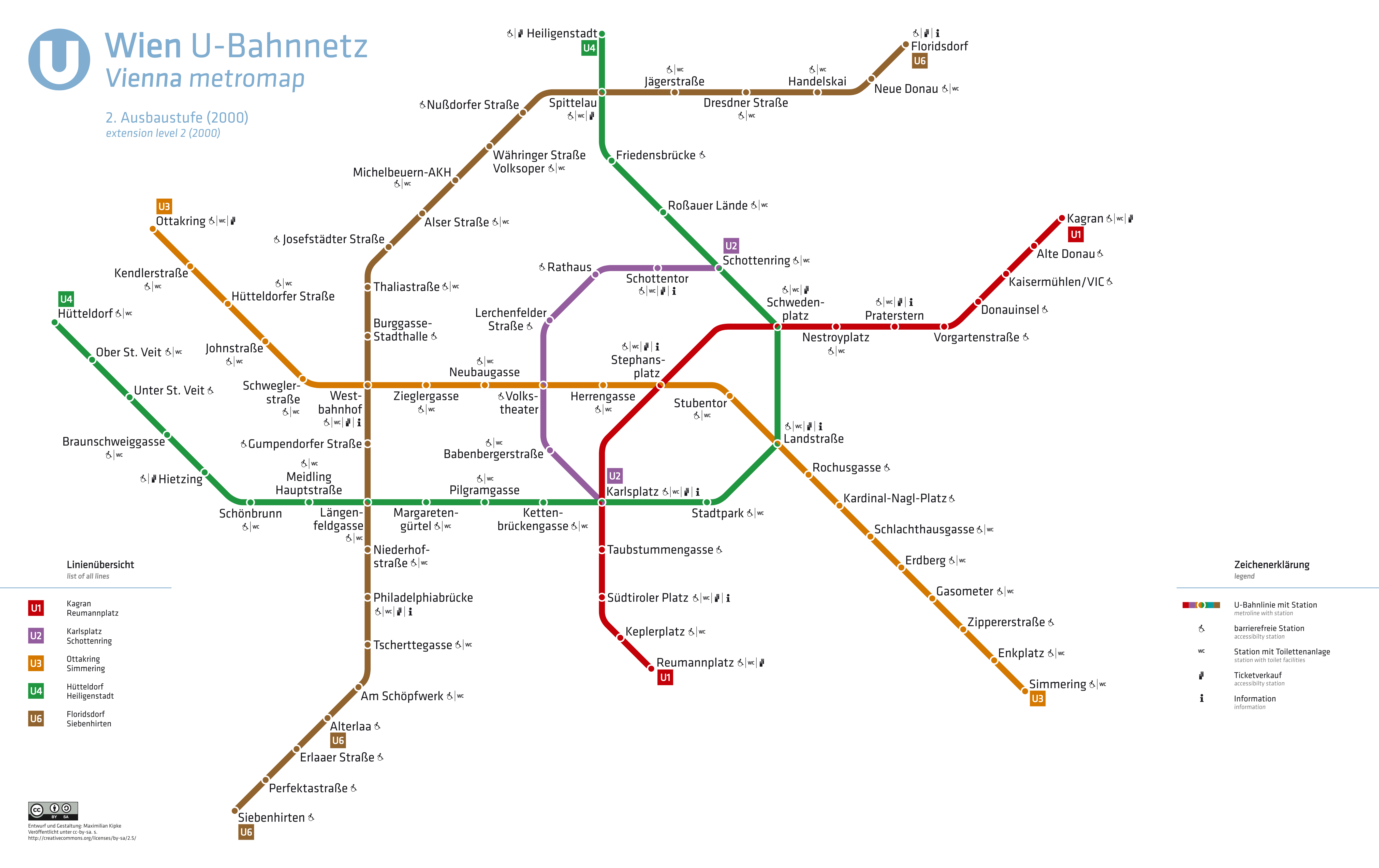 Metromap of Vienna in 2000